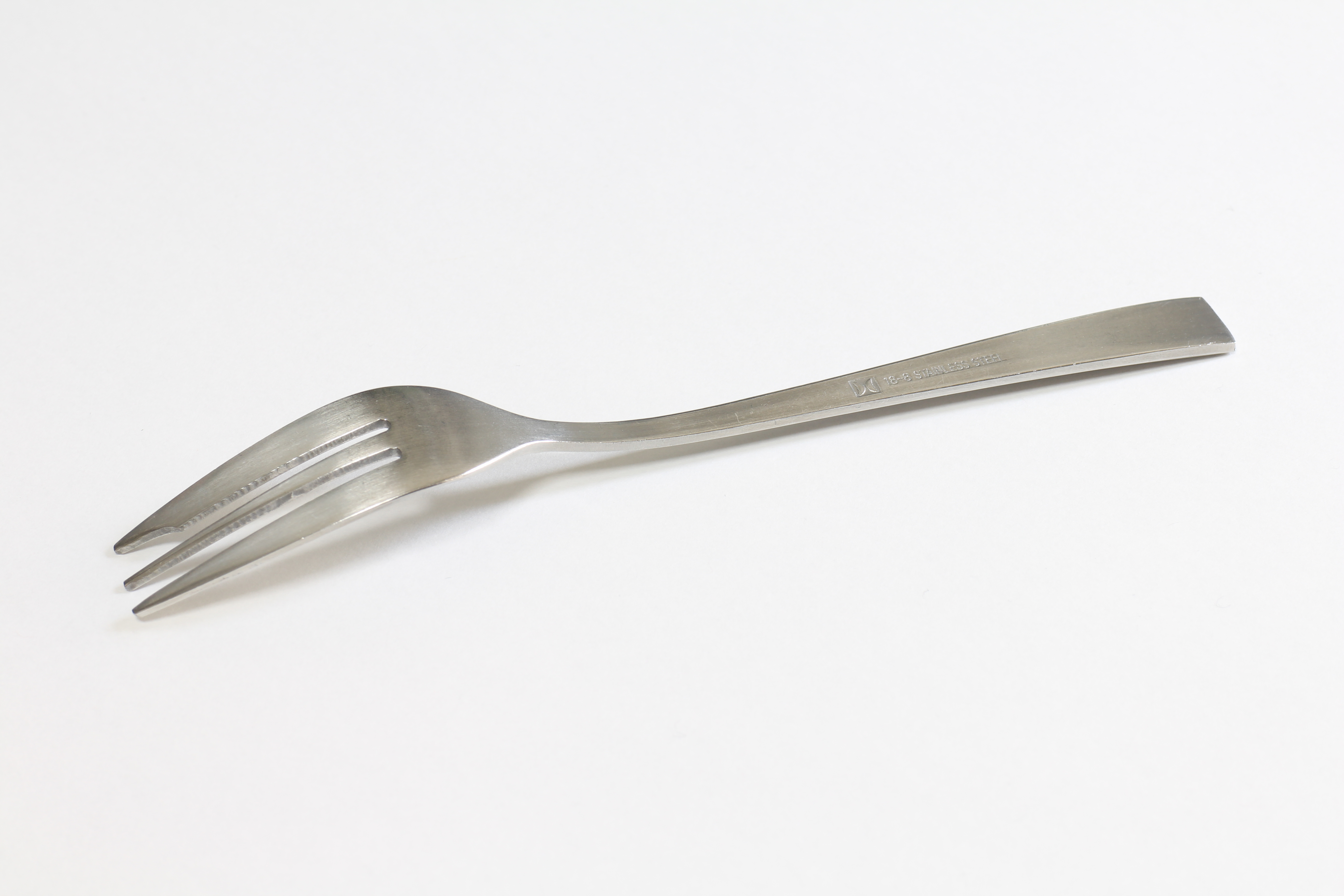 A fork made of 18-8 (18% chromium and 8% nickel) austenitic stainless steel.